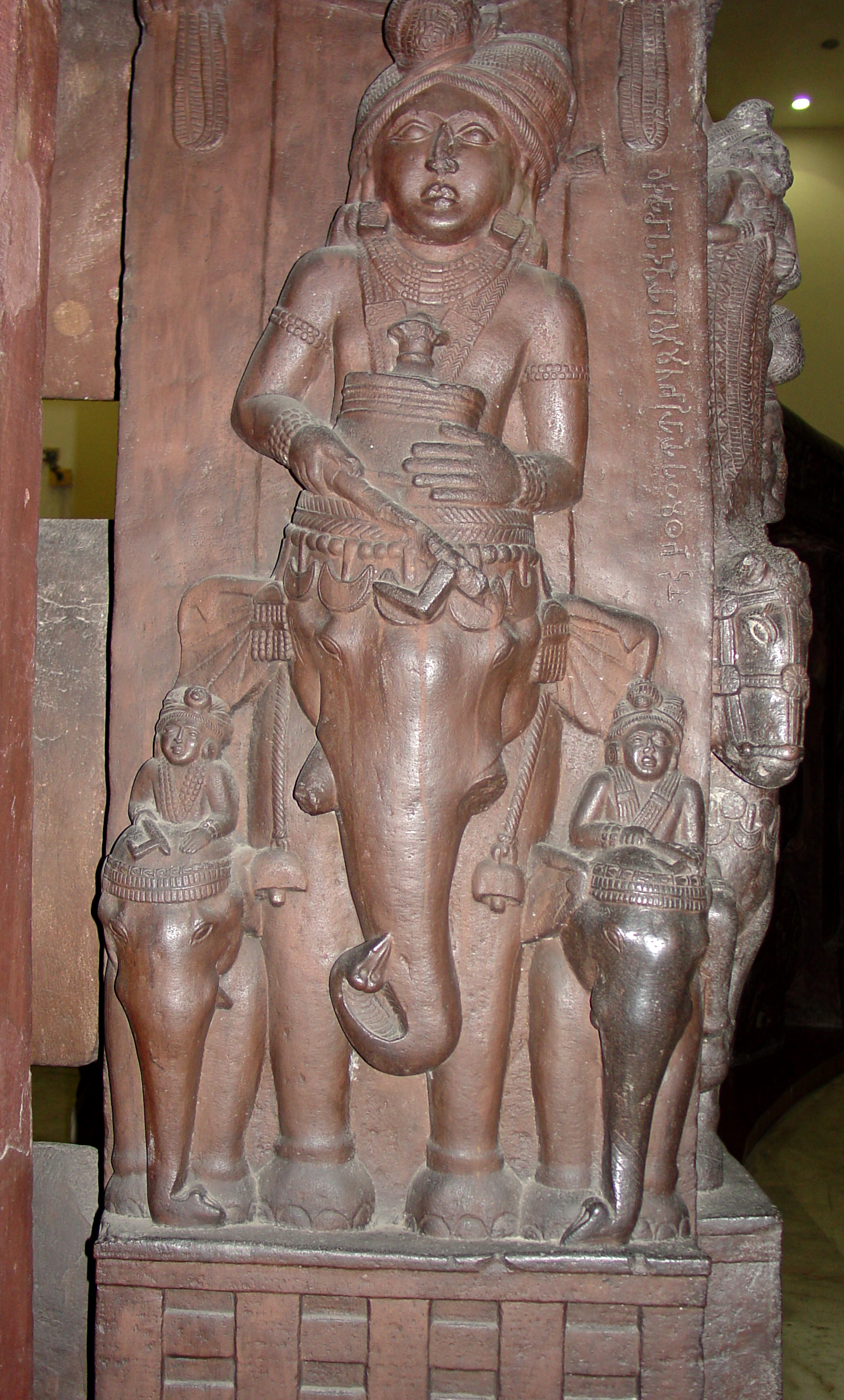 Procession on Elephants. Bharhut, c. 100 BC. Indian Museum, Calcutta A royal procession is illustrated on the end pillar of the vedika. The prince rides an elephant and carries a goad and pyxis (cylindrical box), which held the relics to be buried within the stupa.